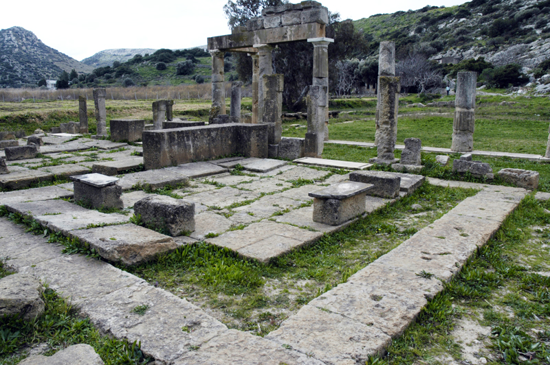 J.M. Harrington, personal digital image